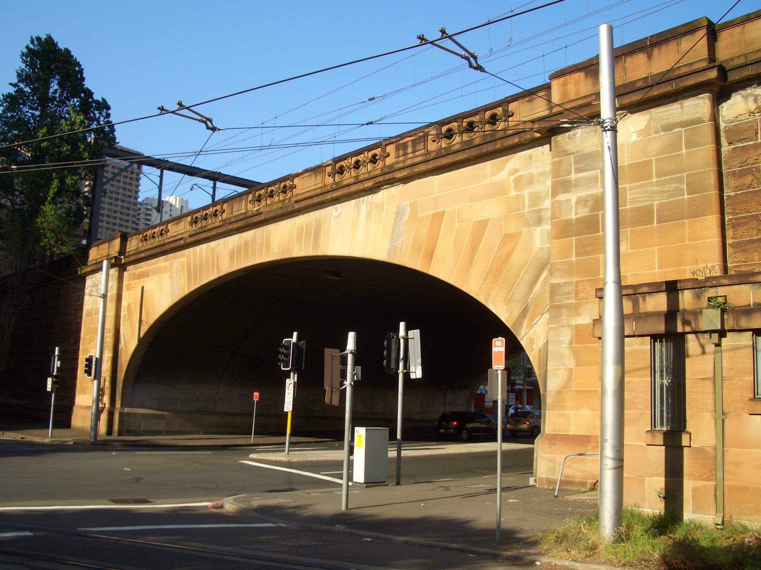 Hay Street Railway Bridge, Sydney